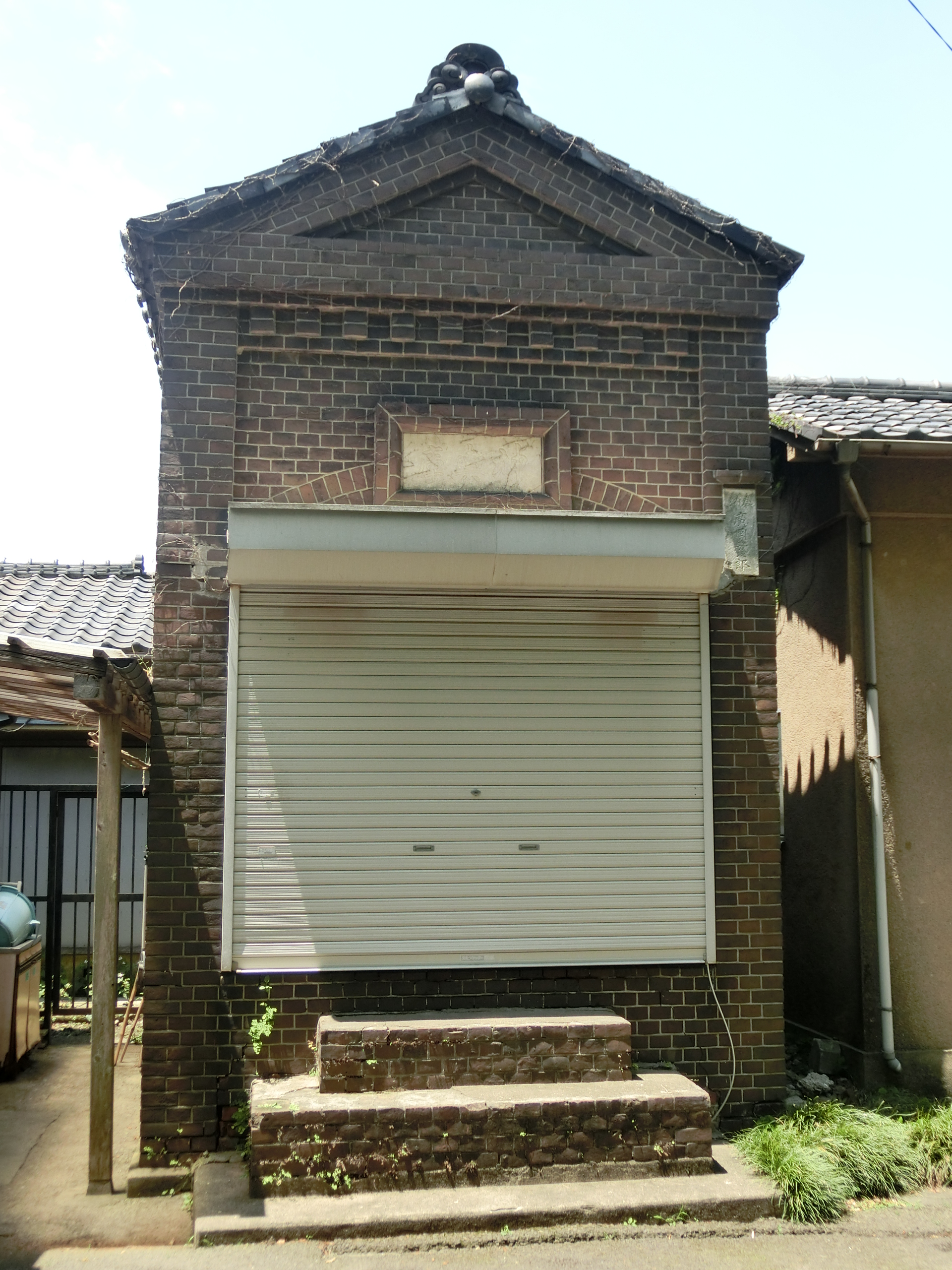 Funakata Jinja barn